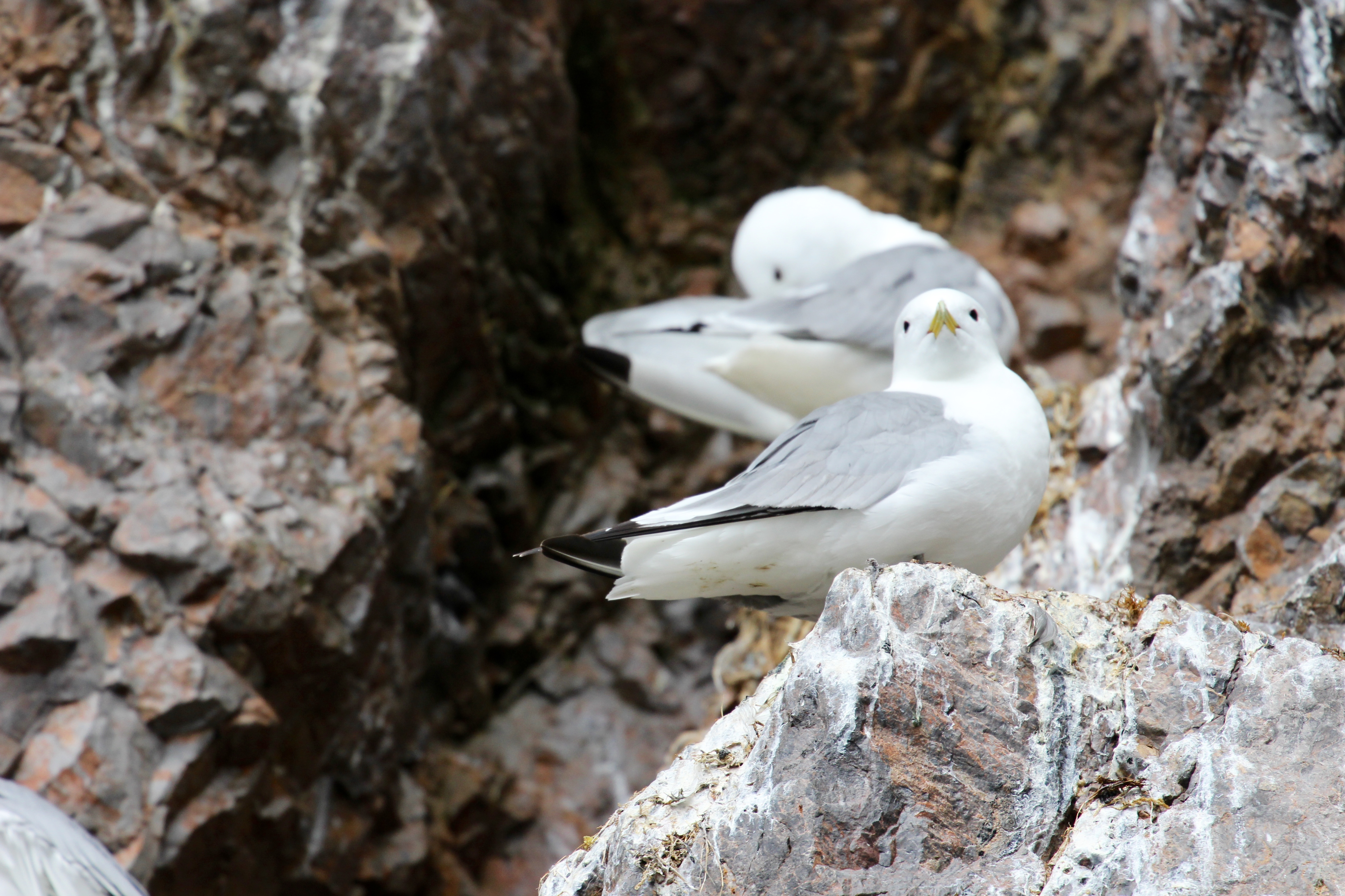 Pictures taken on my Silversea Silver Explorer Arctic cruise. For more on the cruise and dates visit bit.ly/ArcticCruise